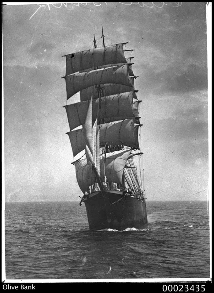 Barque OLIVEBANK of Andrew Weir & Co was built in 1892 and sold in 1913. This photo is part of the Australian National Maritime Museum’s Samuel J. Hood Studio Collection. Sam Hood (1870-1956) was a Sydney photographer with a passion for ships. His 72-year career spanned the romantic age of sail and two world wars. The photos in the collection were taken mainly in Sydney and Newcastle during the first half of the 20th century. The ANMM undertakes research and accepts public comments that enhance the information we hold about images in our collection. This record has been updated accordingly. Photographer: Samuel J. Hood Studio Collection Object no. 00023435